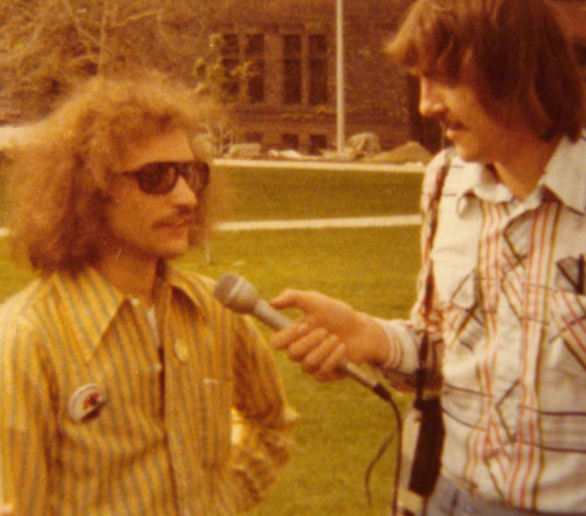 Yippie leader Steve Conliff being interviewed by the Ohio State Lantern newspaper, October 1978